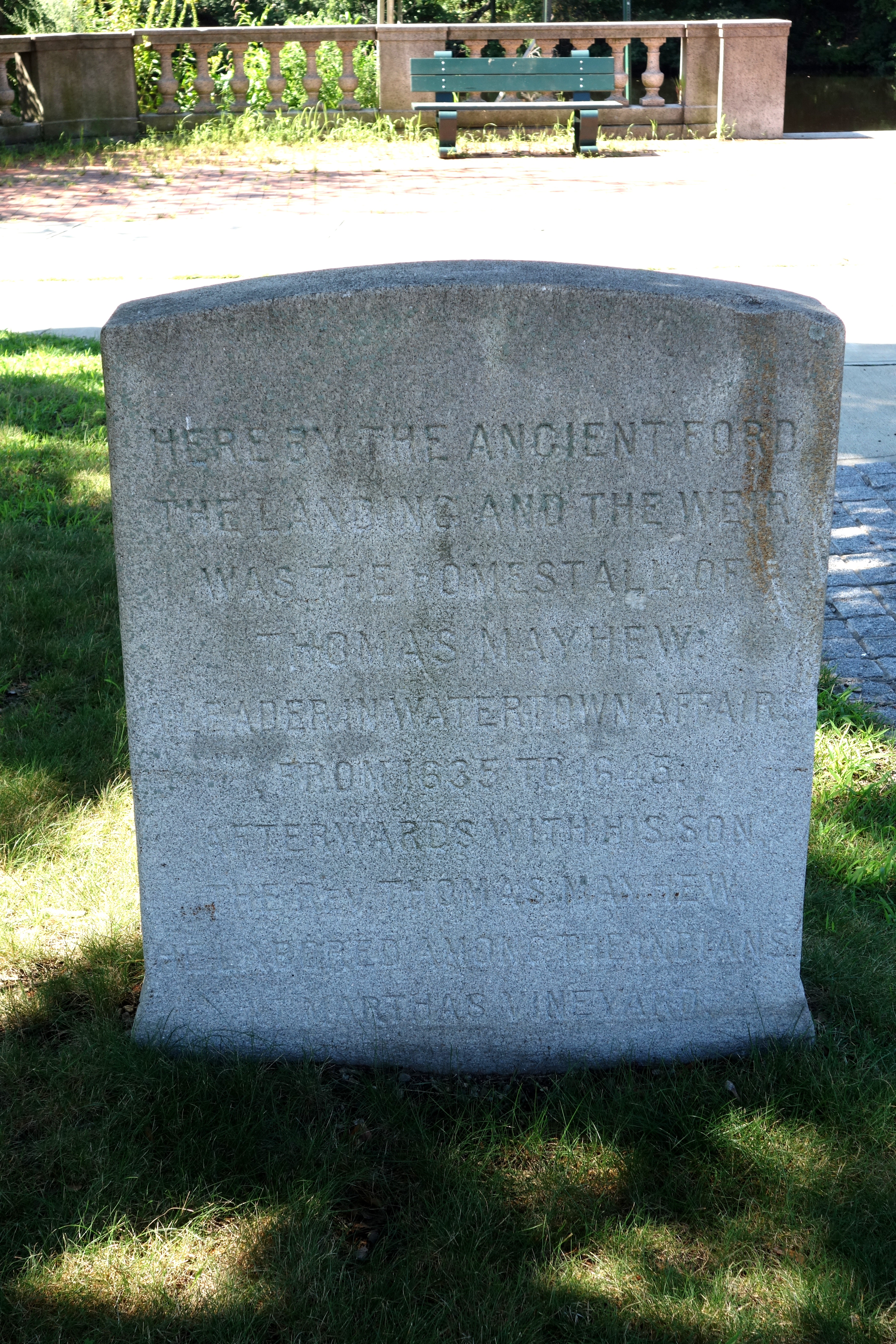 Memorial in Watertown, Massachusetts, USA. This memorial is in the public domain because it was published in the United States between 1923 and 1963 and although there may or may not have been a copyright notice, the copyright was not renewed.